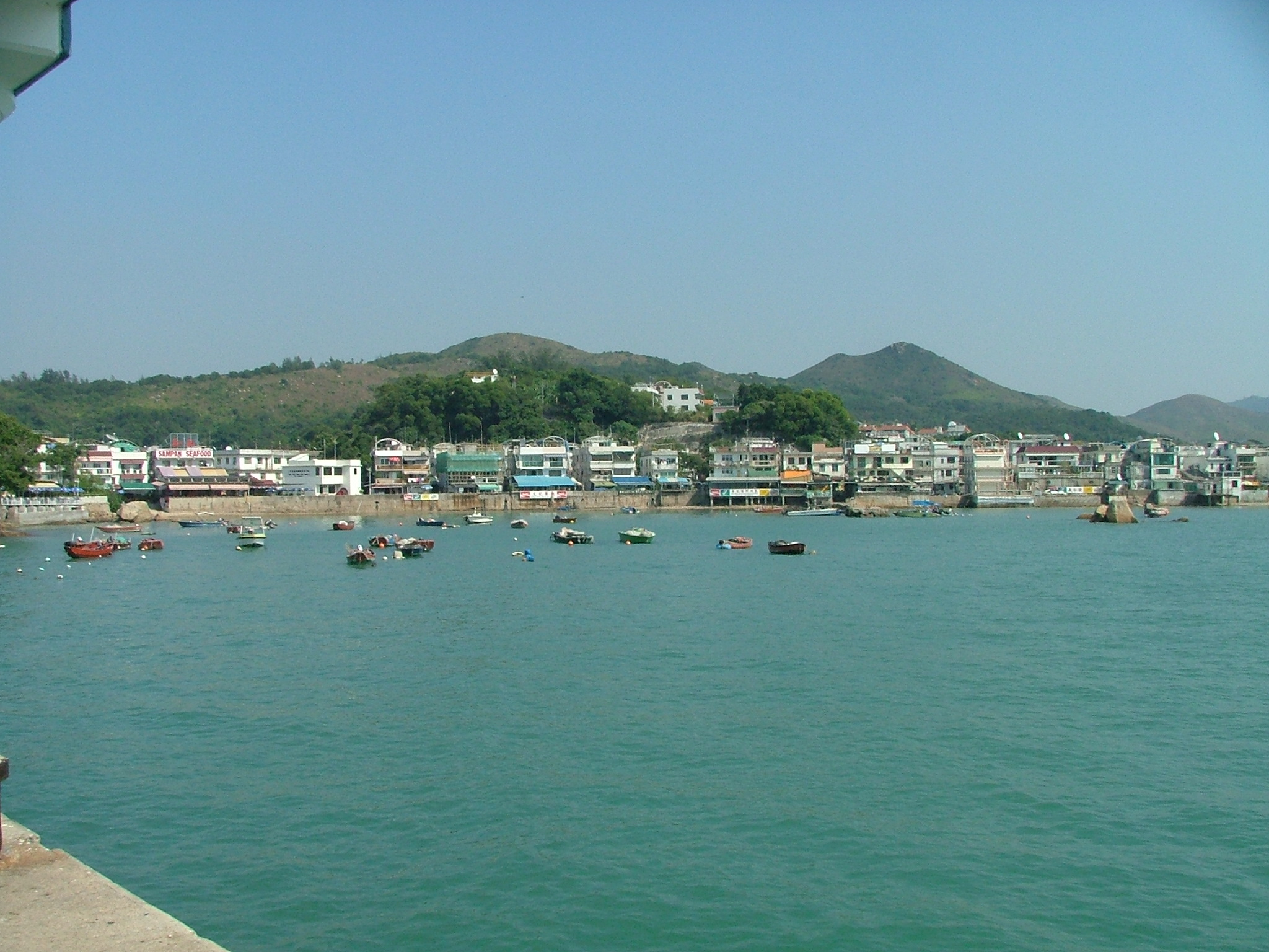 Yung Shue Wan from the Ferry Terminal, Lamma Island, Hong Kong - by me, for Wikipedia.